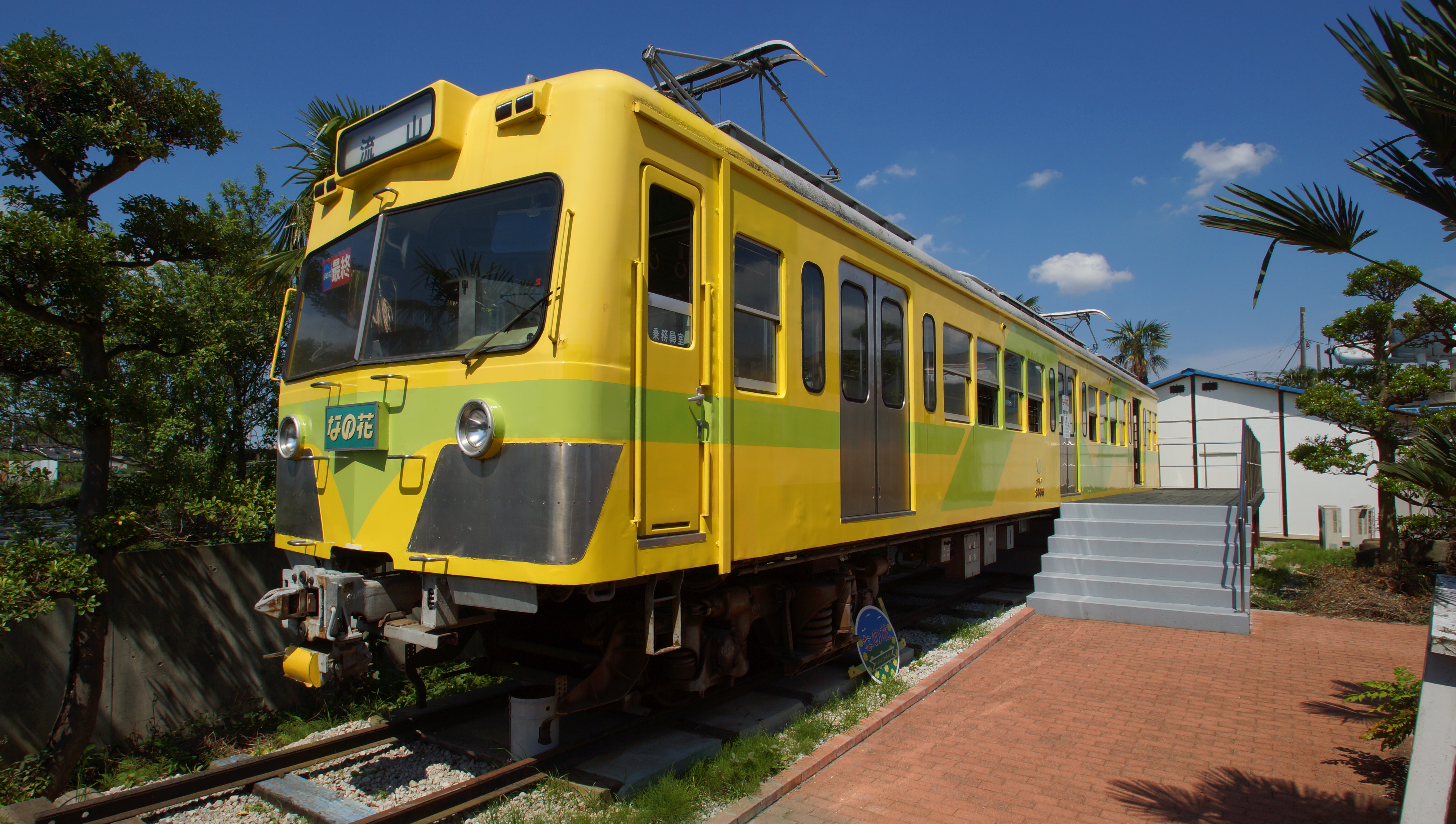 Former Ryutetsu 2000 series EMU car KuMoHa 2006 preserved at the Showa no Mori Museum in Matsudo, Chiba Prefecture, Japan